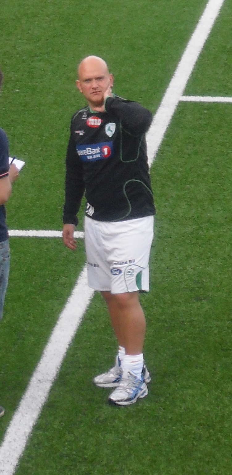 Norwegian football coach Tom Mangersnes